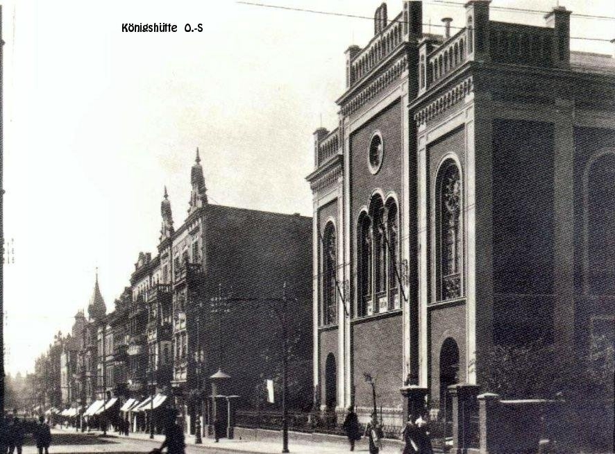 Synagogue of Königshütte (Chorzów now in Poland) destroyed by the nazis in 1939